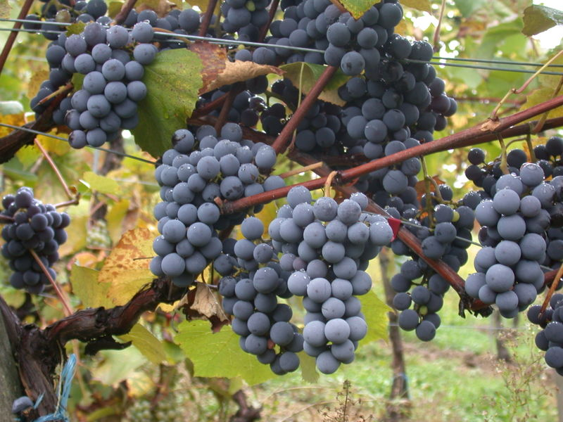 picture of a gamay grape variety